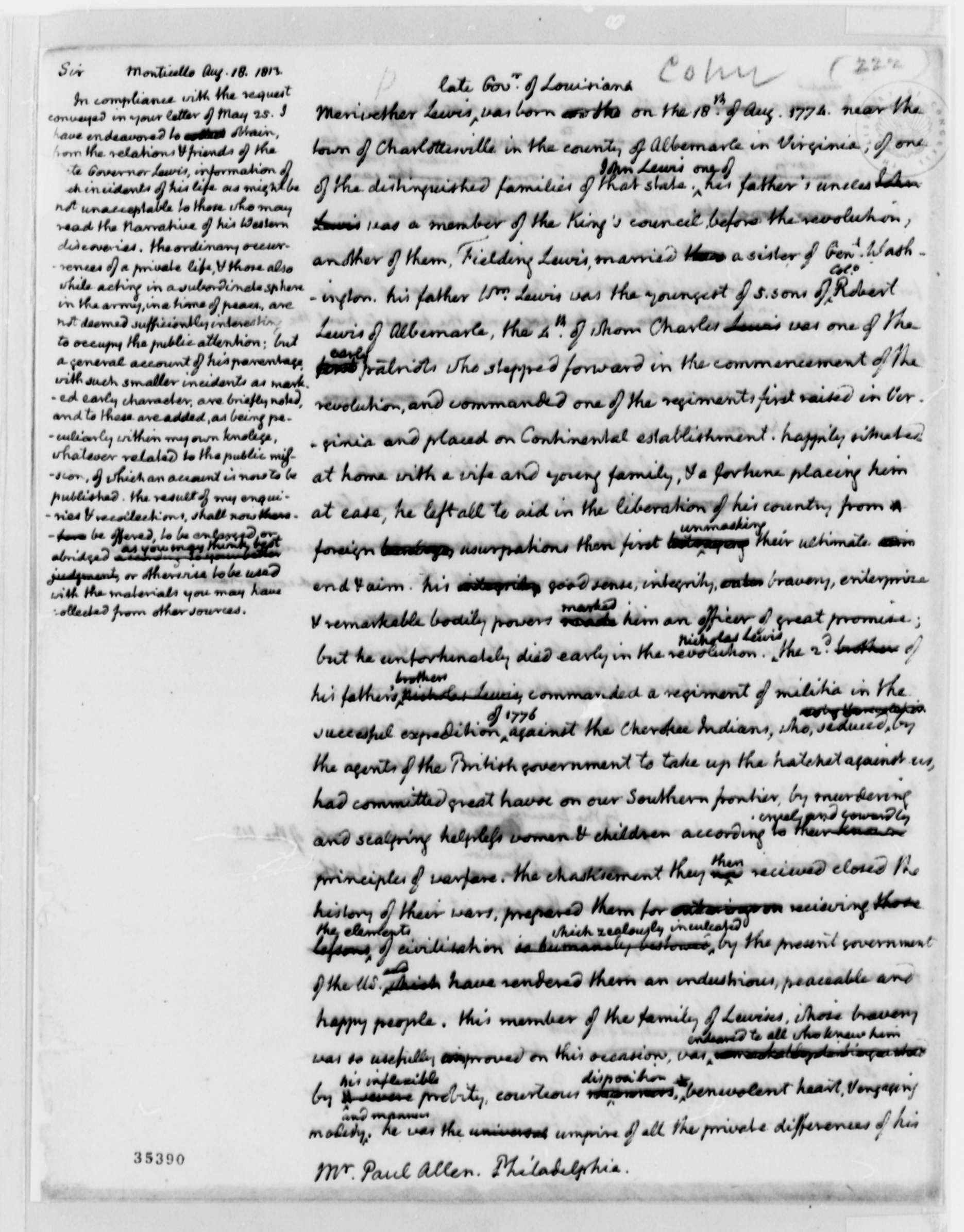 Photograph of letter from Thomas Jefferson to Paul Allen in Philadelphia, with Jefferson's notes of a biography of Meriwether Lewis. Sent by Jefferson from his home at Monticello, Albemarle County, Virginia, birthplace of Meriwether Lewis. The Thomas jefferson Papers, General Correspondence, Series 1, Library of Congress, Washington, D.C.